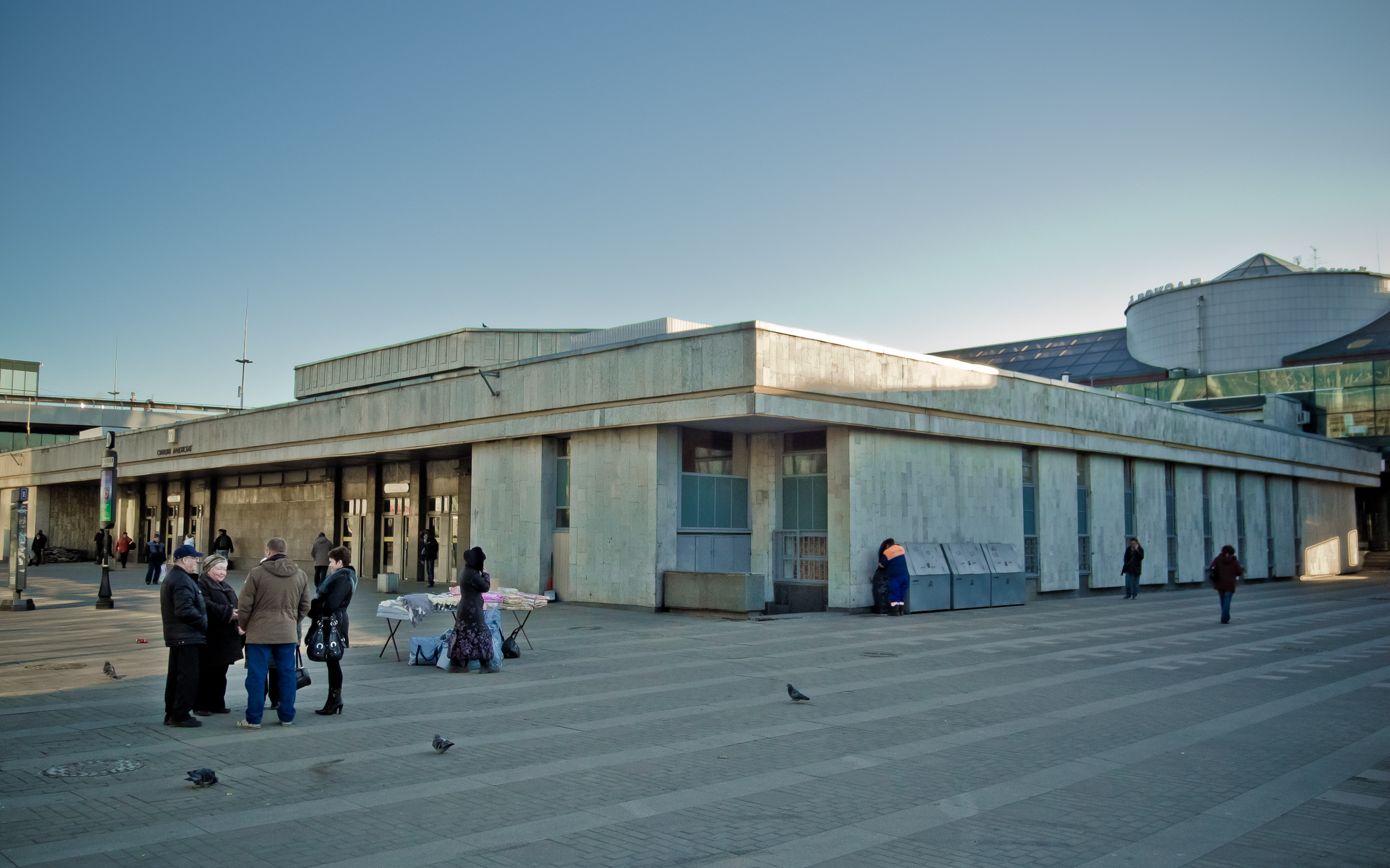 Ladozhskaya station of Saint Petersburg Subway, pavilion